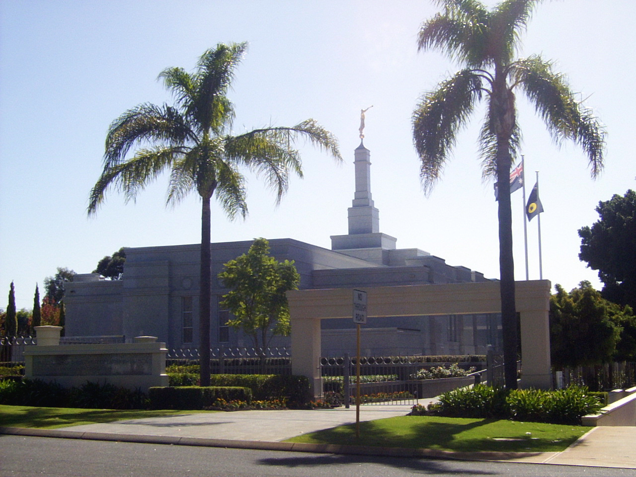 The Perth Australia Temple of the Church of Jesus Christ of Latter-day Saints in Perth, Western Australia. Taken with Kodak DX3215 digital camera.